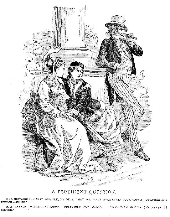 Political Cartoon on Canadian-American relations from 1886. Canada explains to Britannia that she has no desire for union with the United States. Mrs. Britannia.—“Is it possible, my dear, that you have ever given your cousin Jonathan any encouragement?” Miss Canada.—“Encouragement! Certainly not, Mamma. I have told him that we can never be united.” Note that the depiction of the United States largely matched what was becoming the standard "Uncle Sam" personification, but is referred to by the older name (Brother) Jonathan.